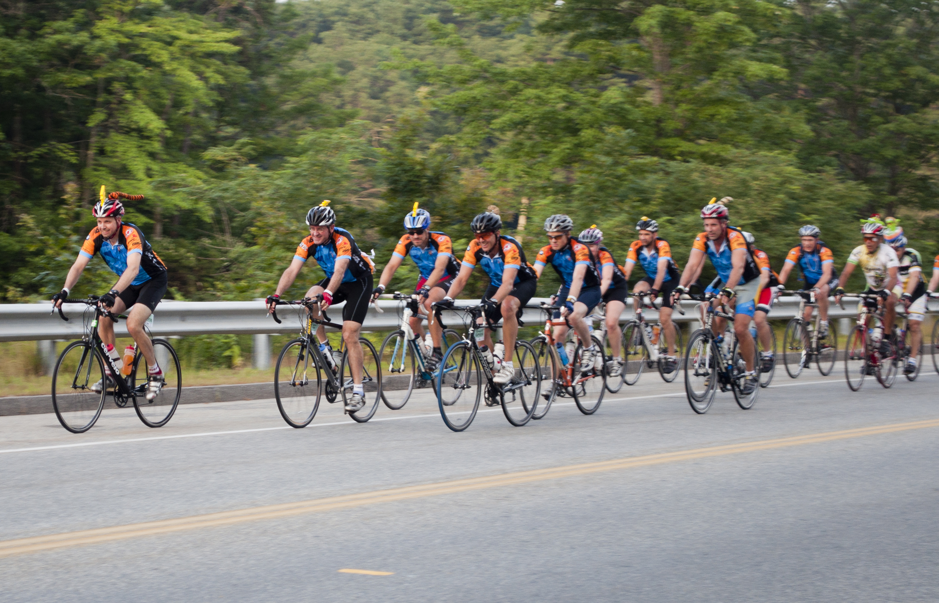 Cyclists riding in the 2011 Pan-Mass Challenge raising money for the Dana-Farber Cancer Institute on August 6, 2011.